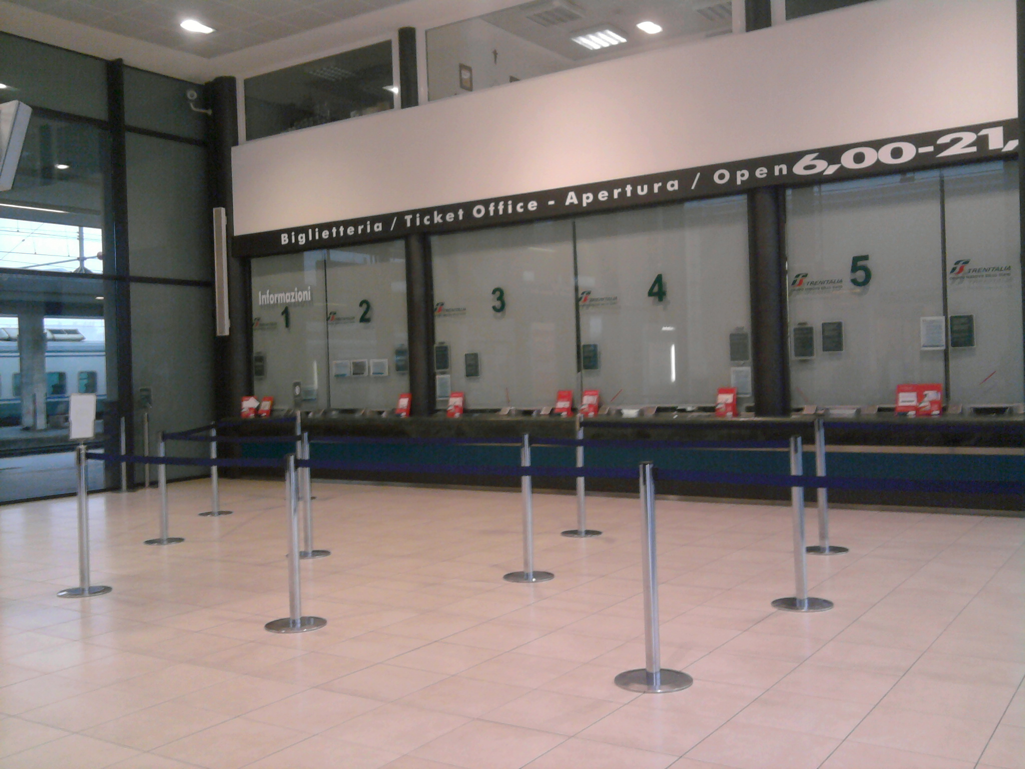 Ticket office of Rimini main railway station.